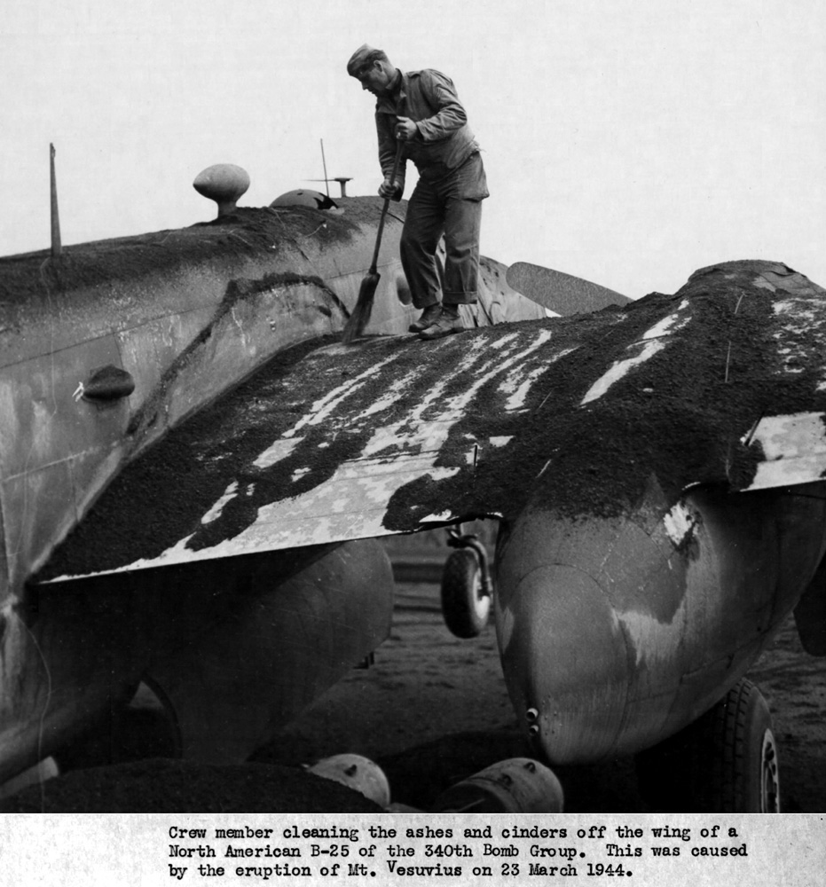 Original Caption (included on image): Crew member cleaning the ashes and cinders off the wing of a North American B-25 of the 340th Bomb Group. This was caused by the eruption of Mt. Vesuvius on 23 March 1944.